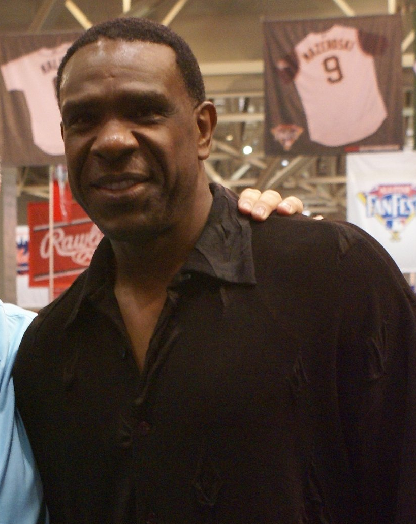 TJ and Andre Dawson at Fanfest